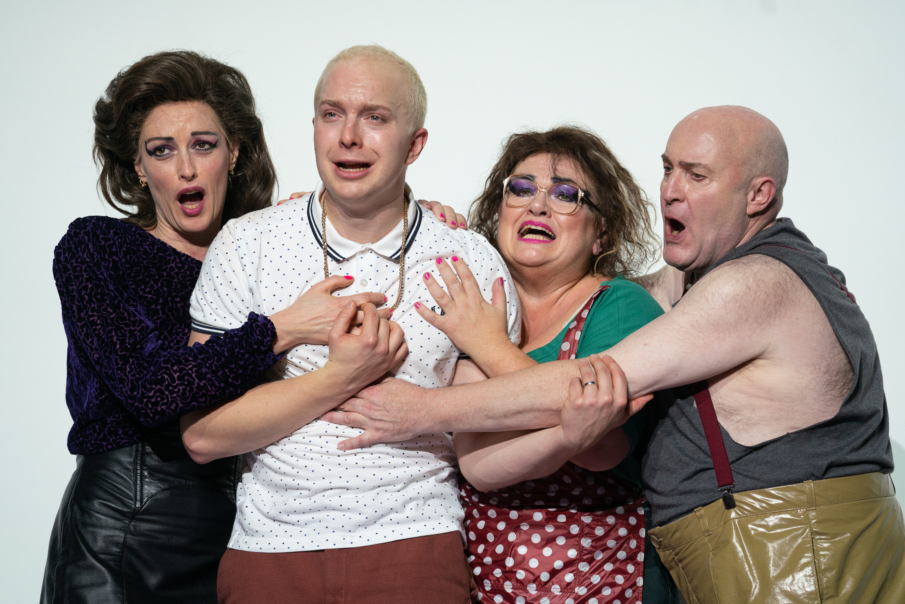 December 2018 Opera House, BAM Brooklyn, NY Photo by Steven Pisano